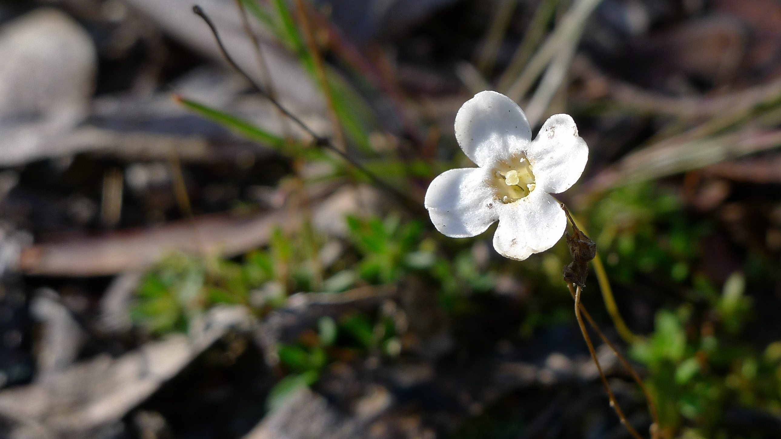 Mitre Weed, Mitrasacme polymorpha, has a small 4-petal white flower. Wog Wog, Morton National Park, NSW Australia, April 2013.